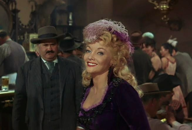 Jack Kruschen & Mari Blanchard in McLintock! (cropped screenshot)